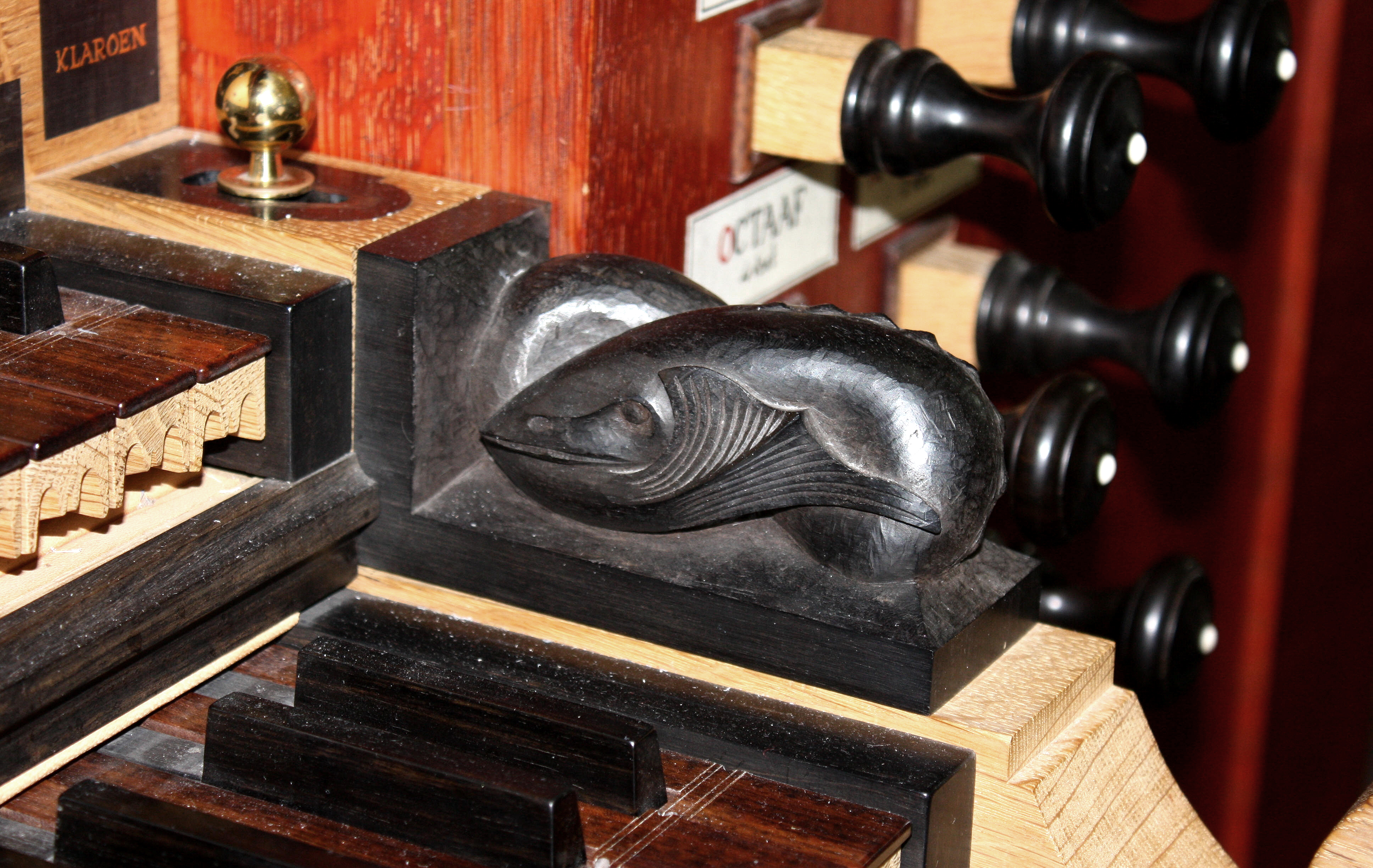 Couple choir organ in Kampen, Bovenkerk